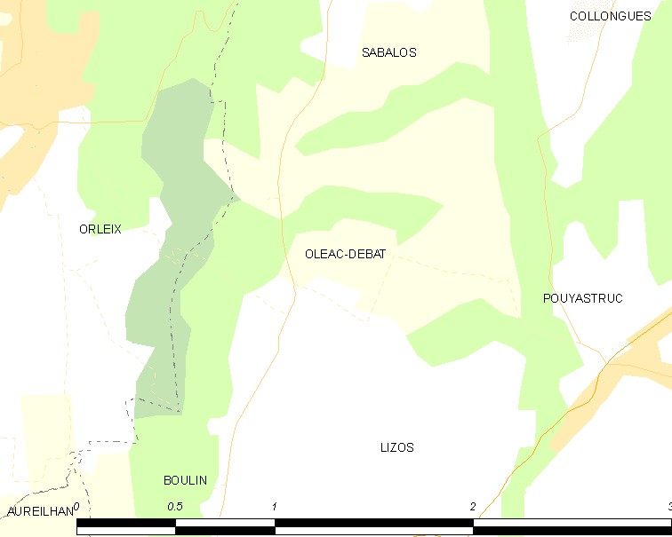 Map of French municipality